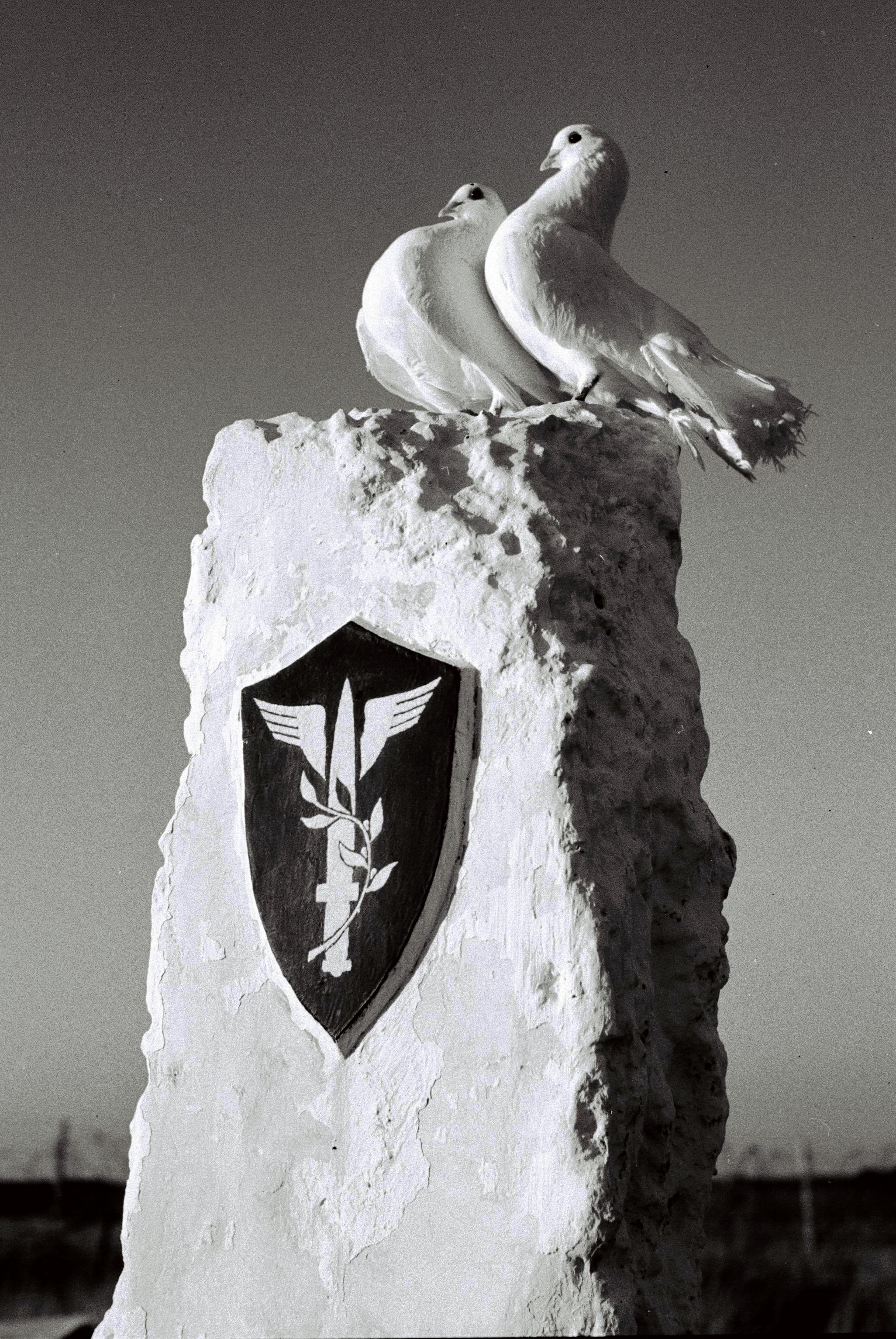 IDF Unknown Pigeon Memorial